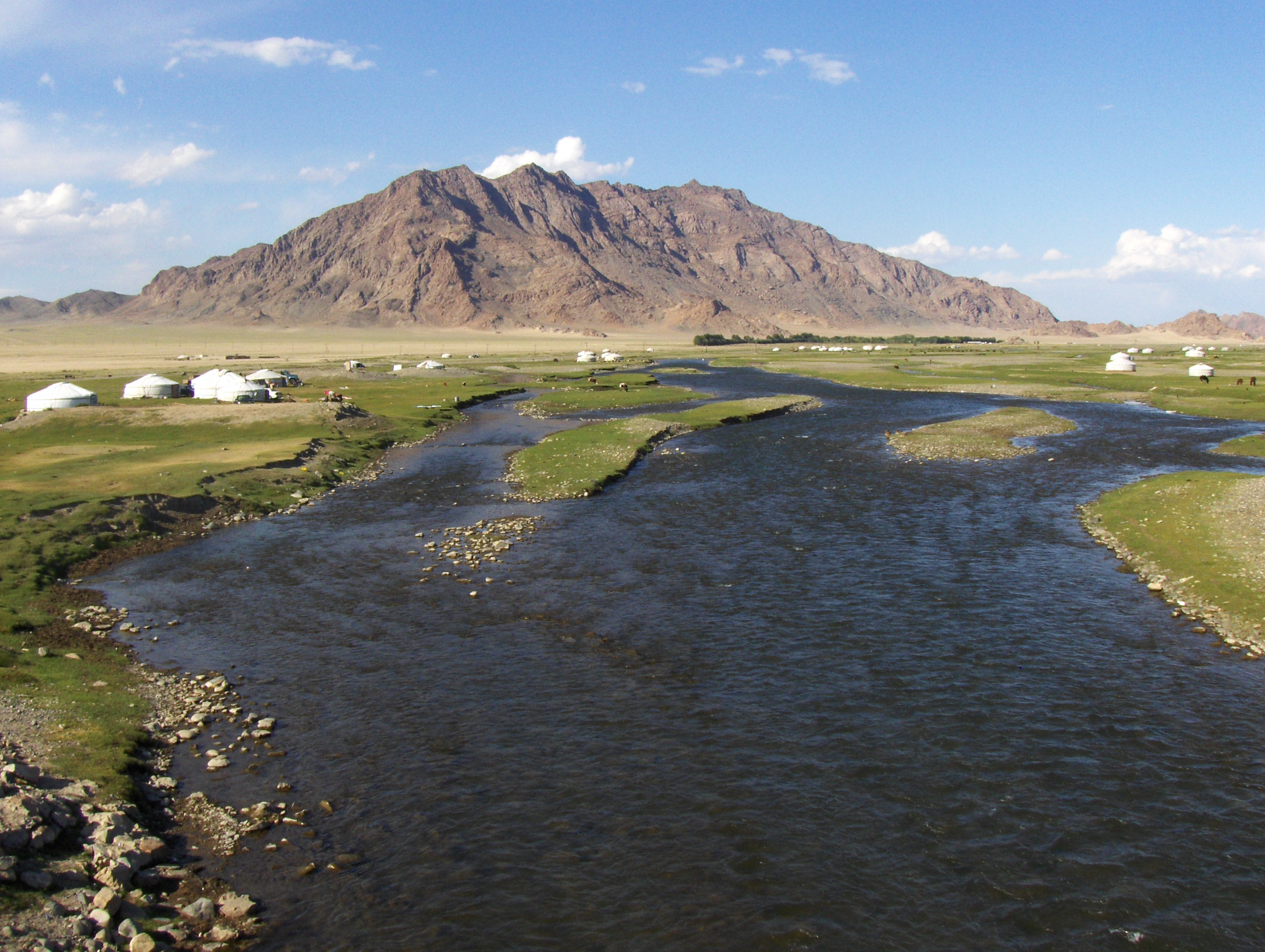 The Buyant River. The Buyant River in Hovd Aimag, Hovd.